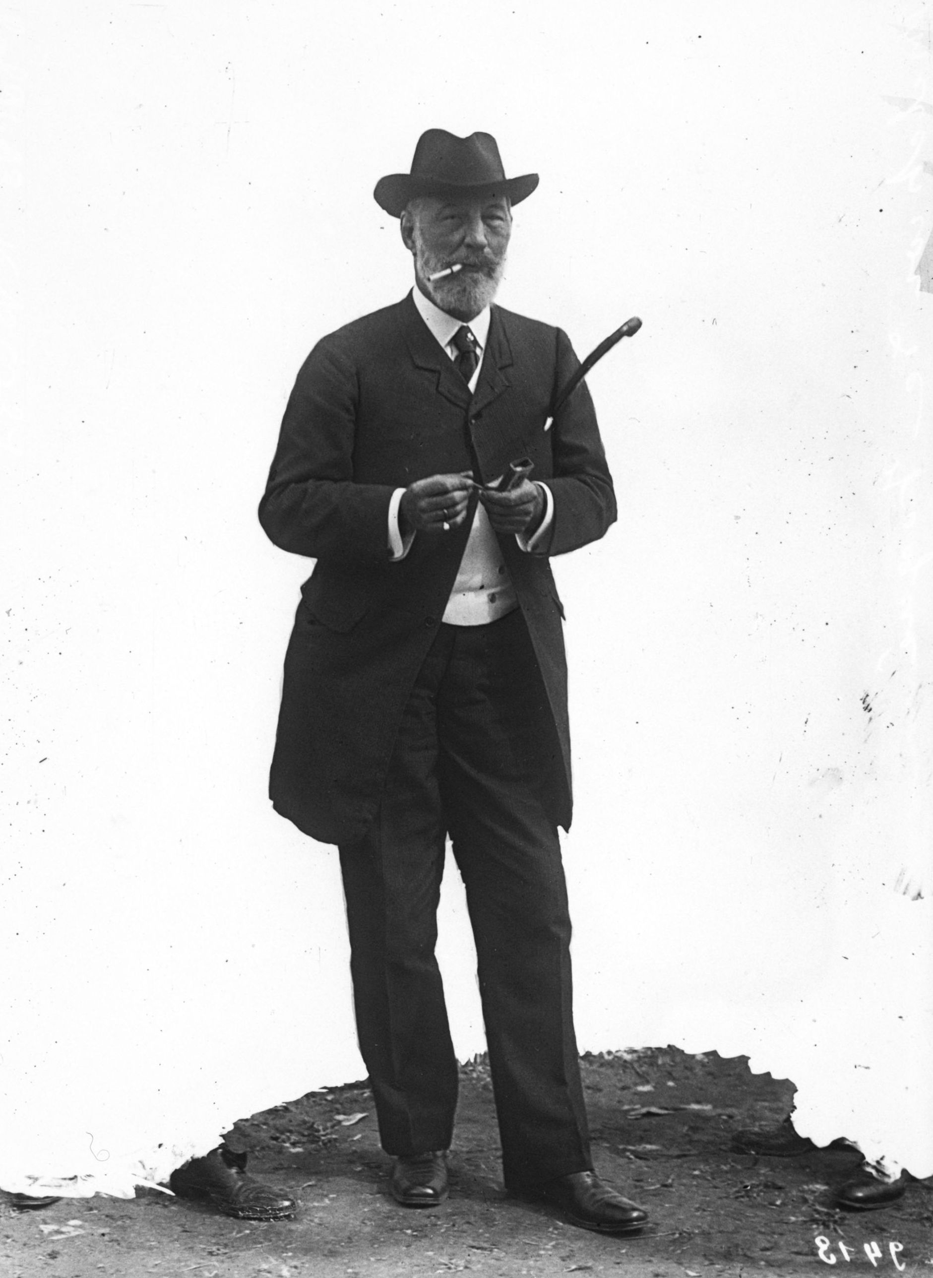 French diplomat, archaeologist and writer Eugène-Melchior de Vogüé (1848-1910